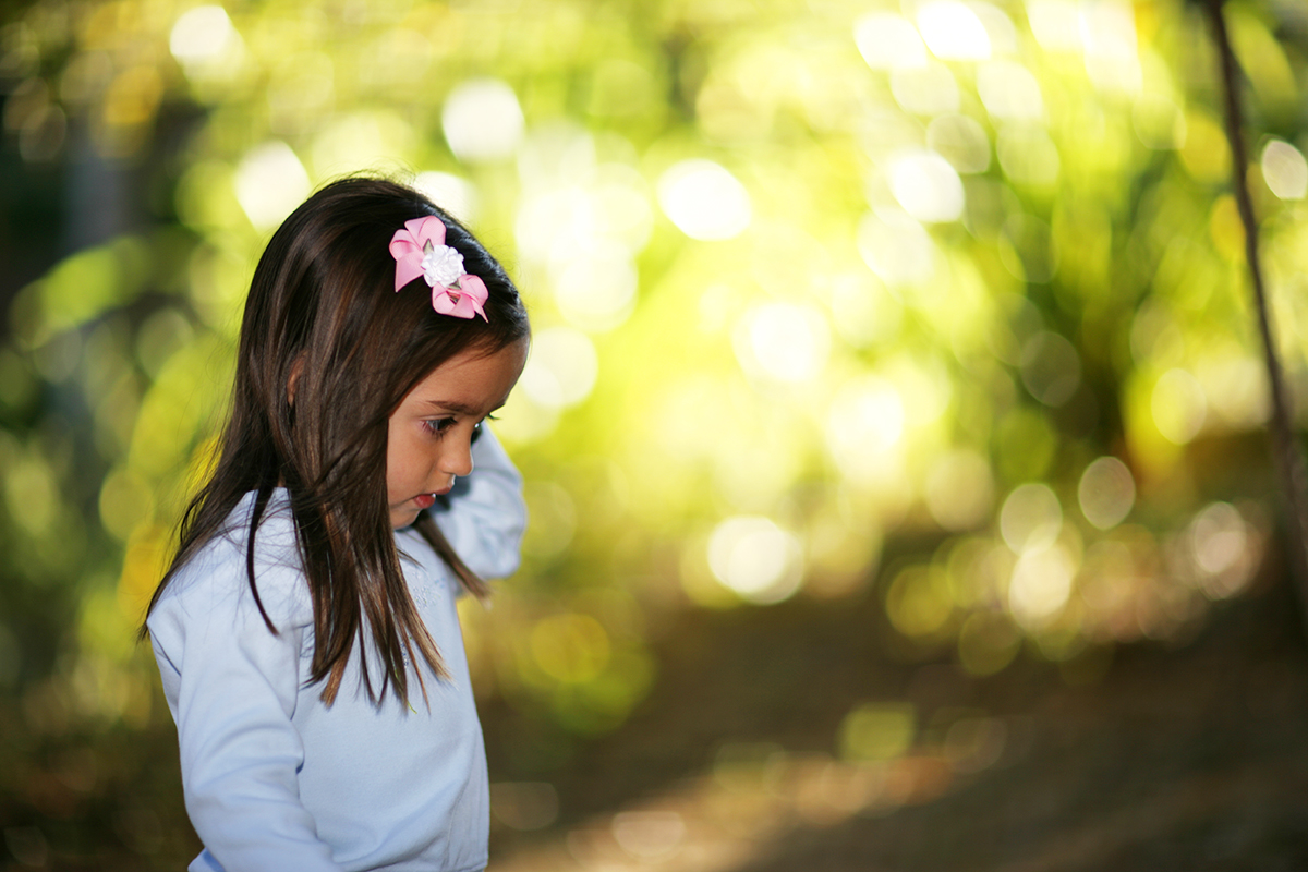 Josefina with Bokeh from Flickr